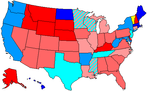 Summary of party control of U.S. house seats in the 108th United States Congress following election. Stripes indicate a tie between two or more parties. Legend: 80.1-100% Democratic seat majority 60.1-80% Democratic seat majority 60% or less Democratic seat plurality 60% or less Republican seat plurality 60.1-80% Republican seat majority 80.1-100% Republican seat majority 80.1-100% Independent seat majority